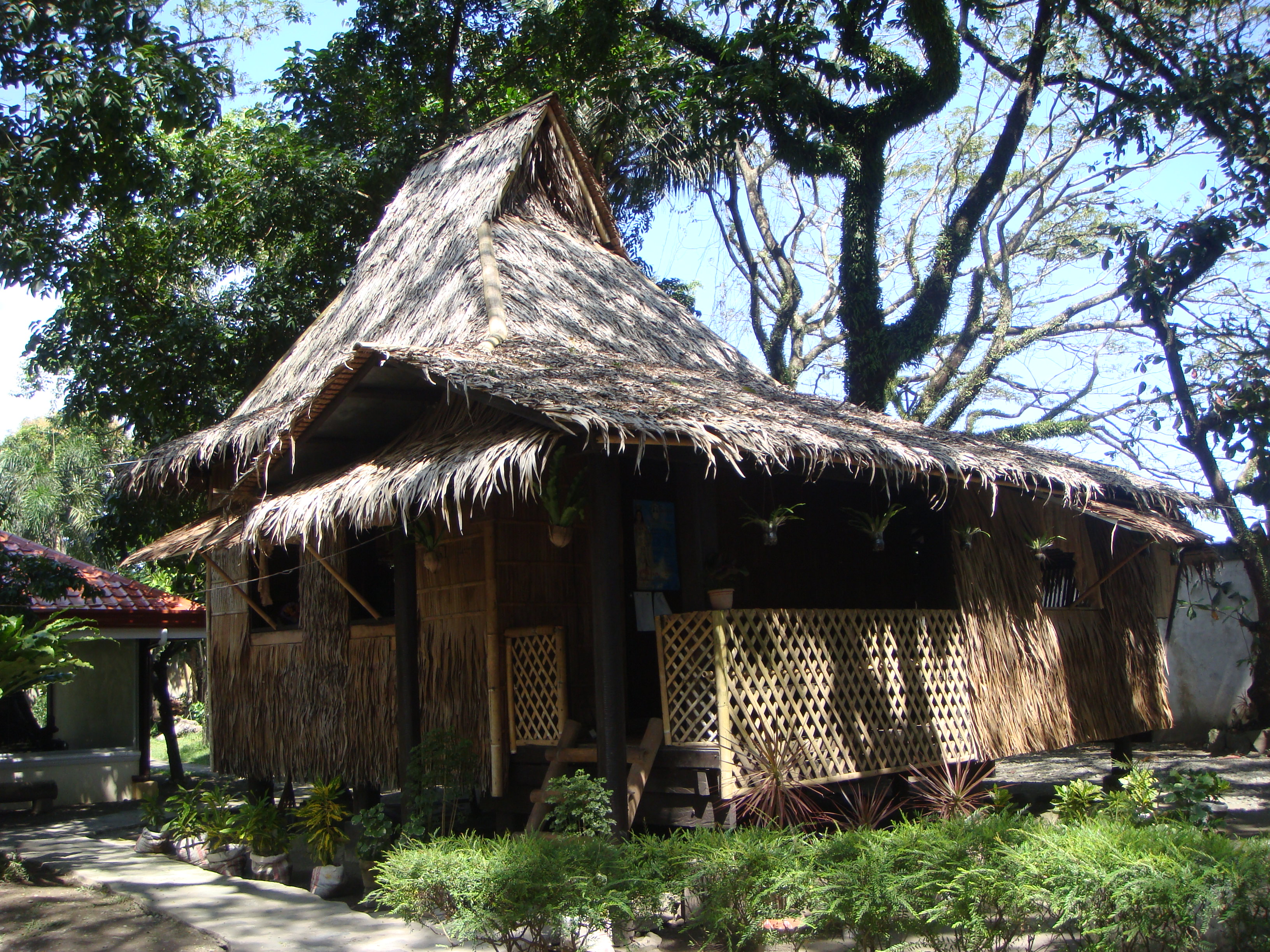 Manuel Luis Quezon House (replica) in Baler, Aurora Quezon Park